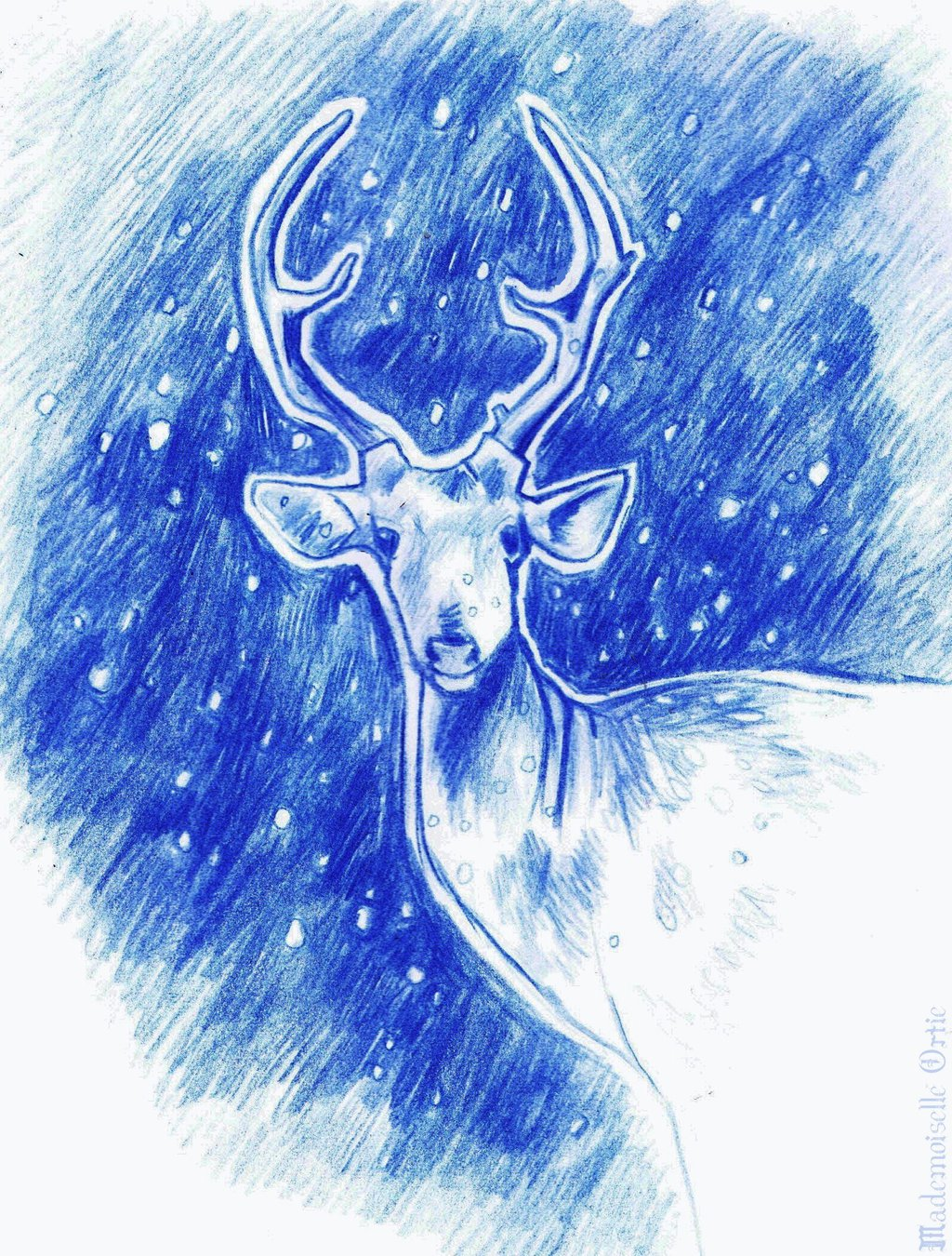 Fan art reprensenting the Patronus of Harry Potter made by Mademoiselle Ortie aka Elodie Tihange.